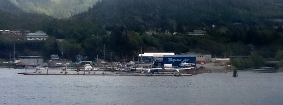 Dock for Taquan Air seaplanes, Ketchikan, Alaska